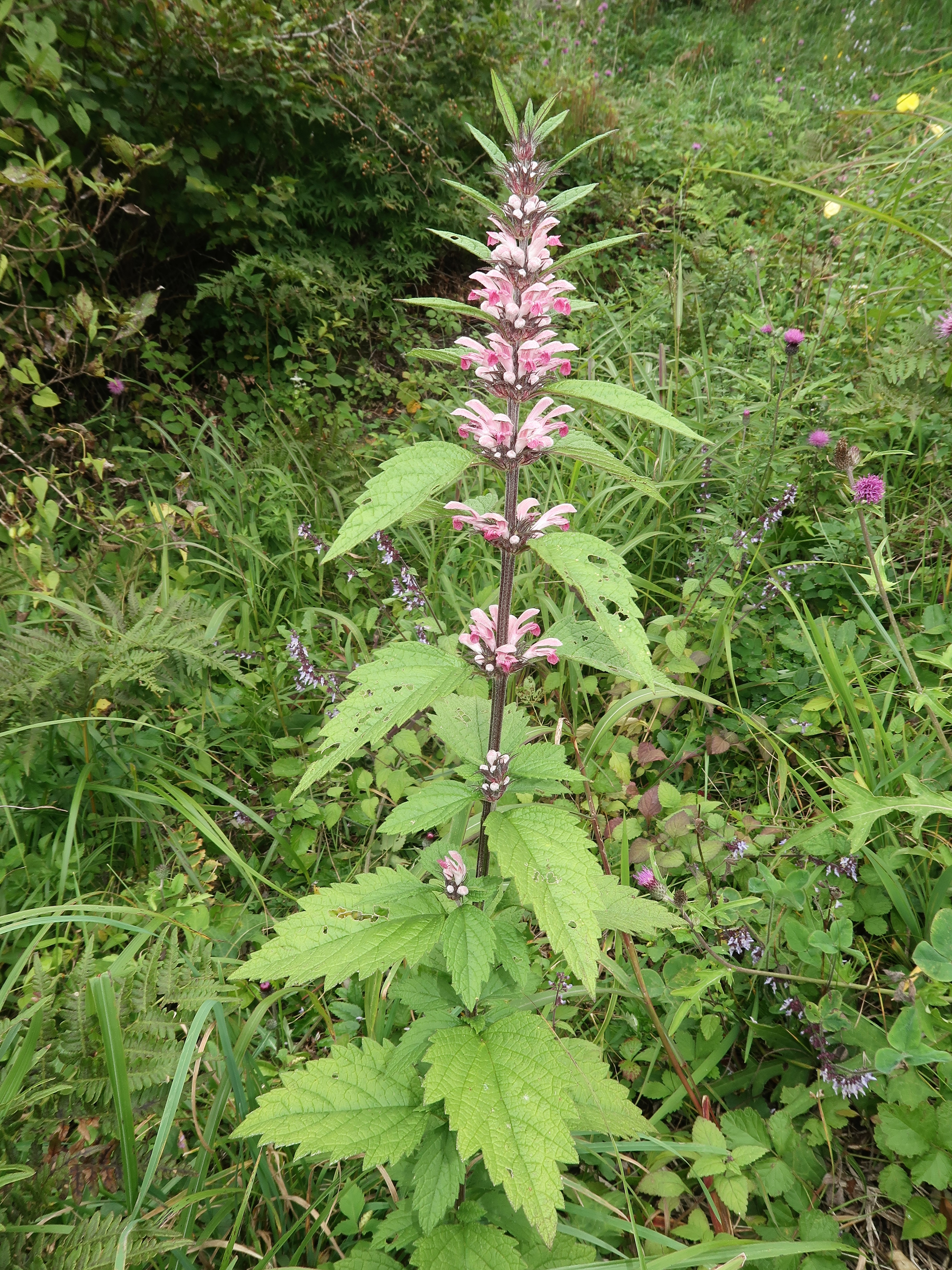 Leonurus macranthus, Naka-dori area, Fukushima pref., Japan